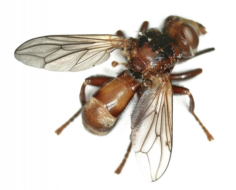 Sicus ferrugineus (Conopidae) - (male imago), Elst (Gld) - De Park, the Netherlands